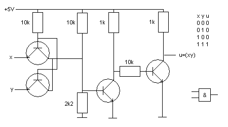 AND Gate